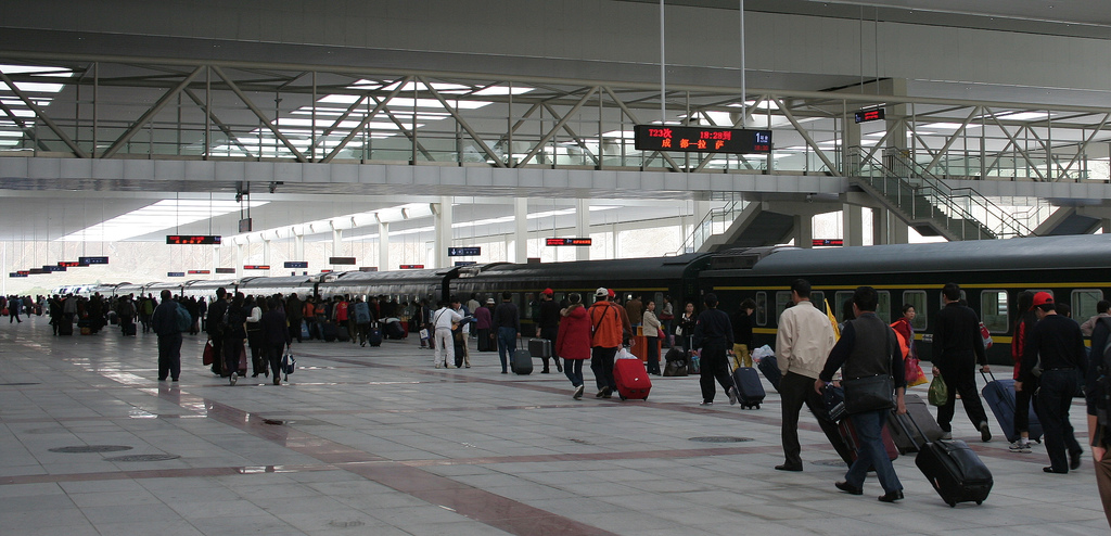 Lhasa, Tibet train station September 17, 2006 Photo by -shu-. Flickr CC license.